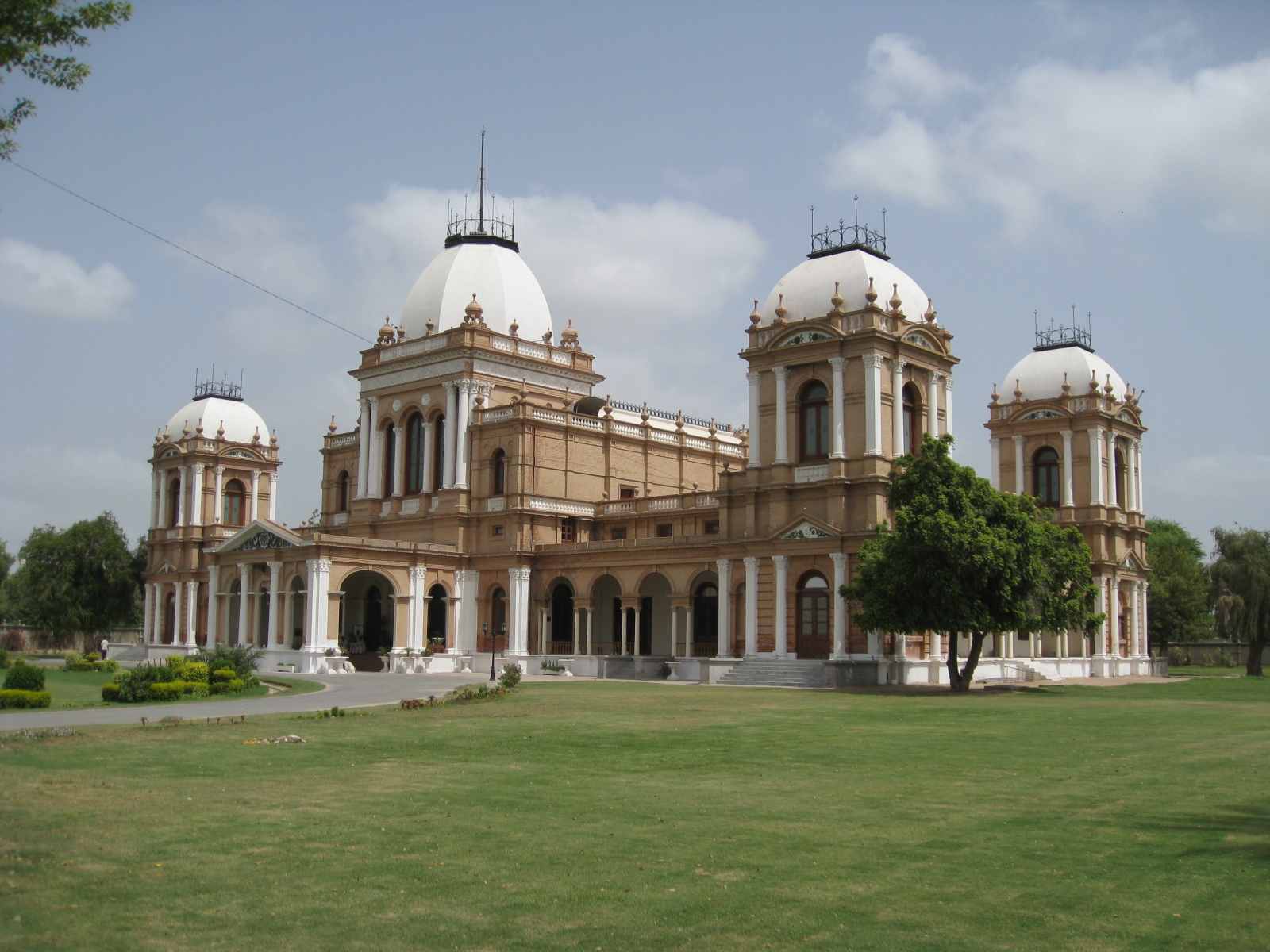 The Nur Mahal palace — side view of facade. Located near Bahawalpur, in the Punjab region, eastern Pakistan. With Porte-cochère (left) and gardens.